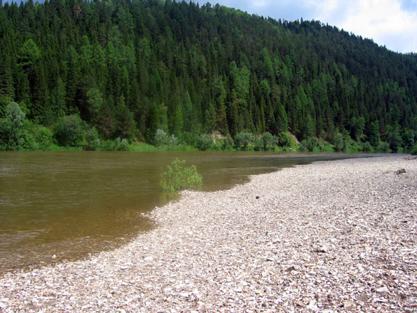 Ufa River and gravel shore.